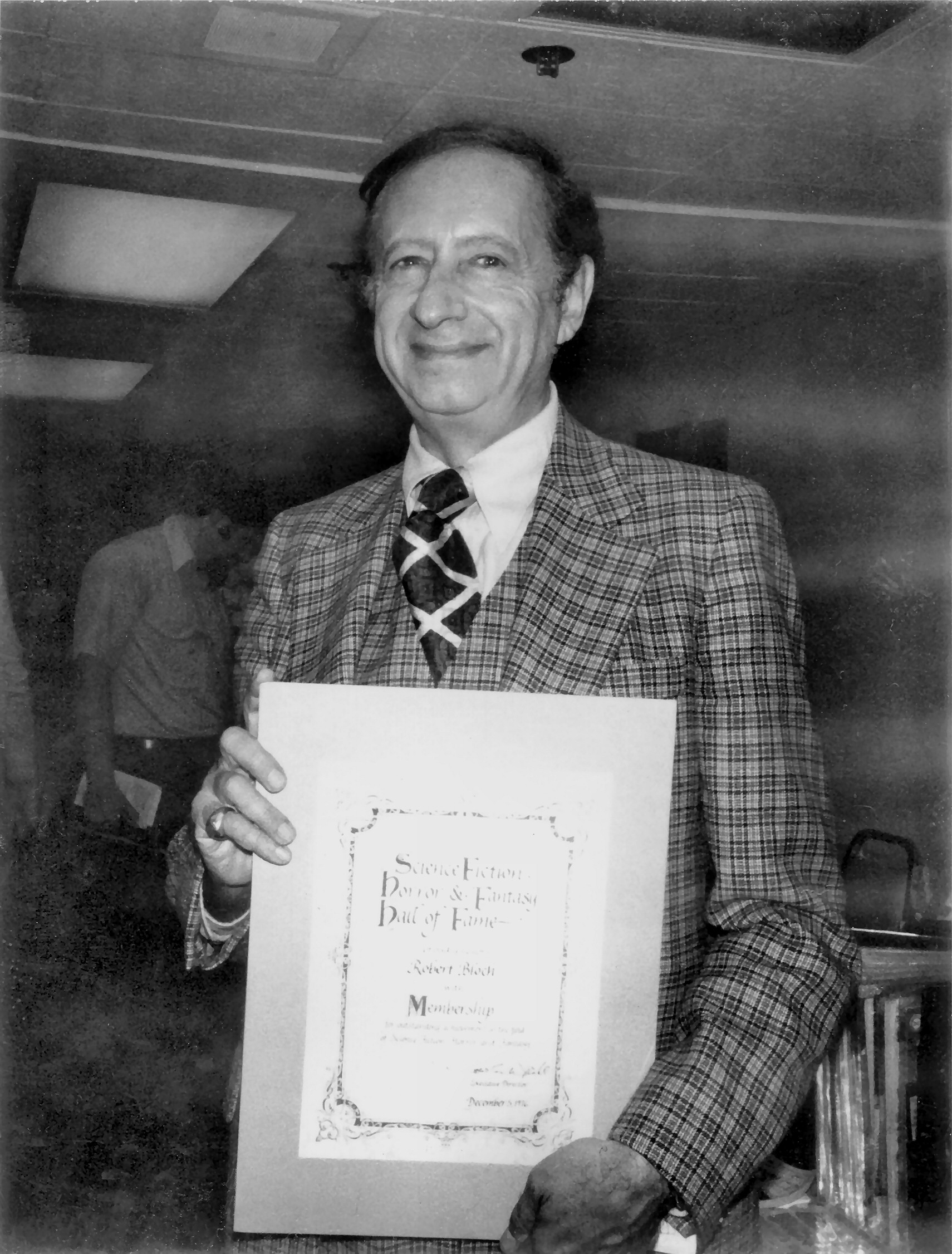 10 1st. Science Fiction, Horror and Fantasy Awards Luncheon 05-Dec-76 Robert Bloch with His Award